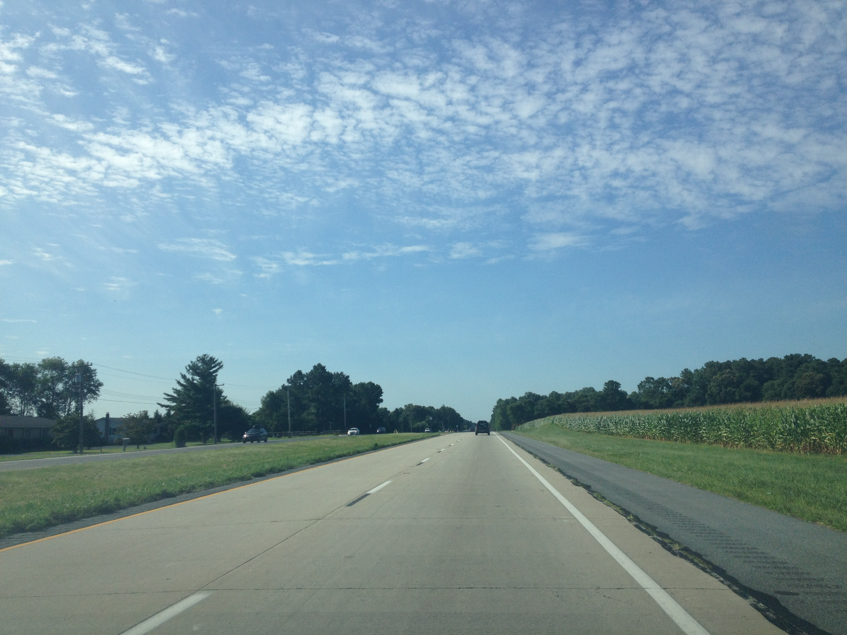 Southbound U.S. Route 113 (DuPont Boulevard) between Milford and Ellendale, Delaware.